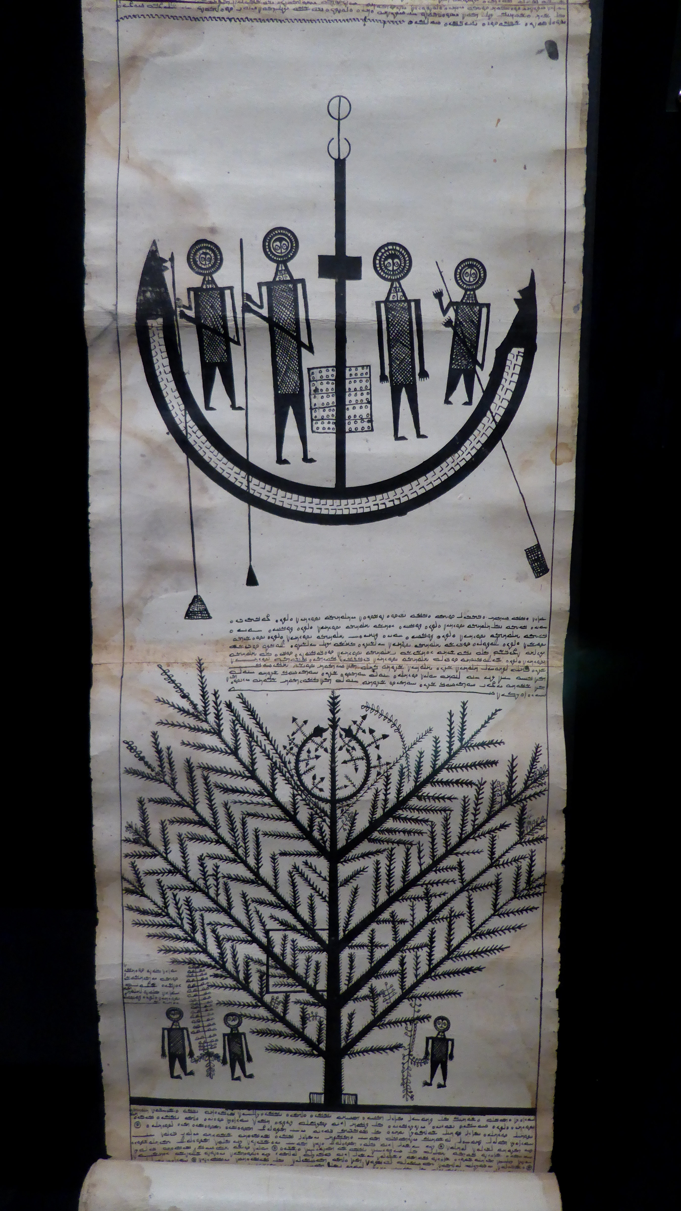 An eighteenth-century Scroll of Abathur, part of the Mandaean religious tradition, on display at the Bodleian Library in Oxford.